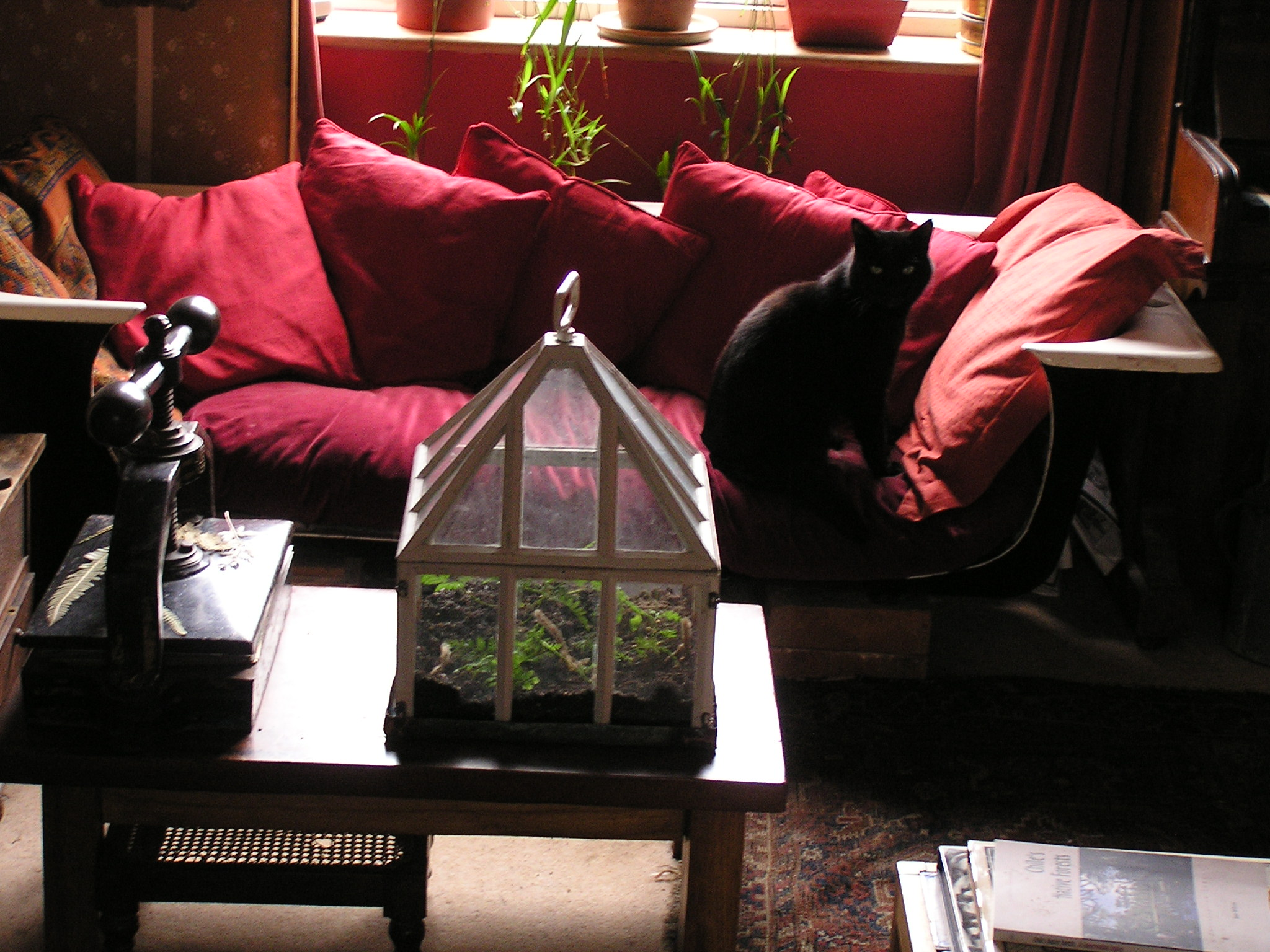 Wardian case